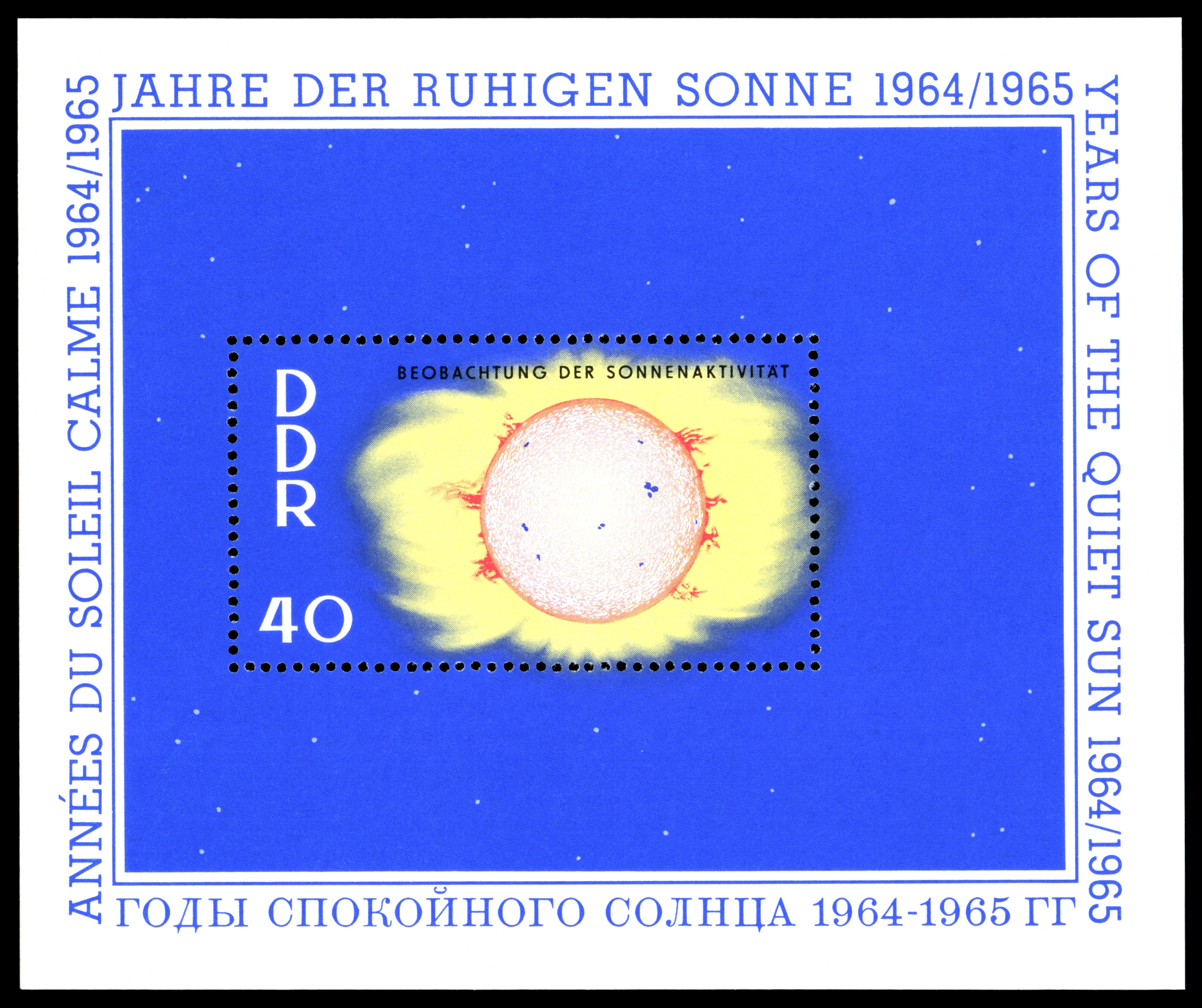 Ausgabepreis: 40 Pfennig First Day of Issue / Erstausgabetag: 29. Dezember 1964 Auflage: 1.600.000 Entwurf: Urbschat Druckverfahren: Offsetdruck Michel-Katalog-Nr: Ländercode-MiNr: Block 21 Licensing This file is most likely NOT in the public domain. It has been marked for review, and will be deleted in due course if the review does not find it to be in the public domain.This file was previously considered to be in the public domain as a German stamp; it is possible that it is in the public domain for other reasons, in which case a new rationale will be applied as part of the review process. See below for the previous rationale. Previous public domain rationale, no longer applicable This stamp is in the public domain in Germany because it was released by the postal administration of the German Democratic Republic or the Soviet occupation zone (Deutschen Post der DDR) whose legal successor is the Federal Republic of Germany. Thus it is an official work according to German copyright law (§ 5 Abs. 1 UrhG).